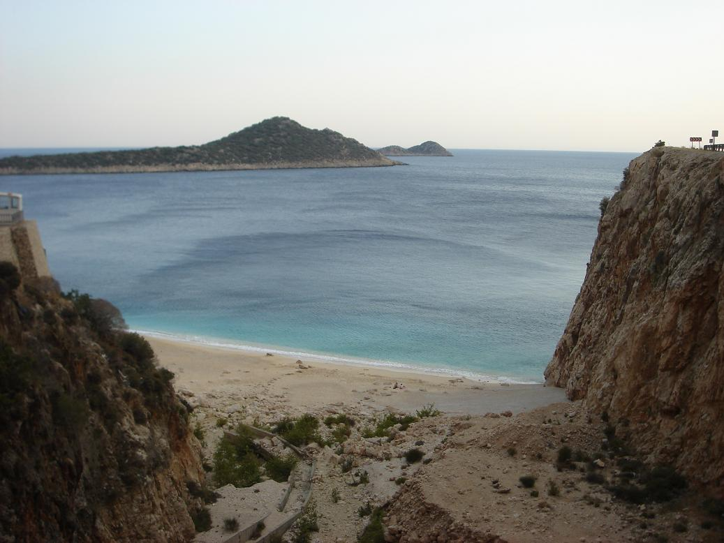 Kaputaş Beach